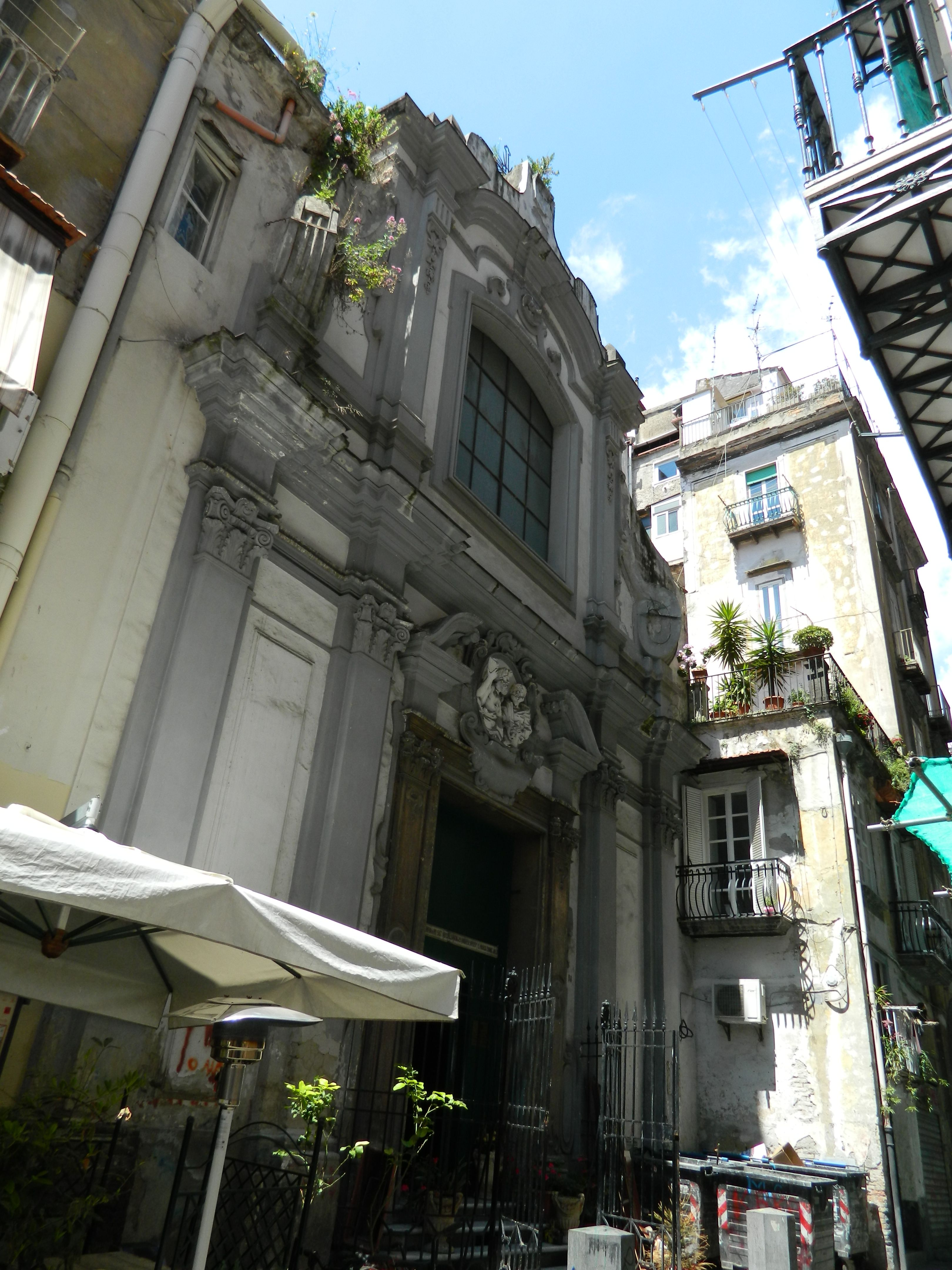 Chiesa dei Santi Marco e Andrea a Nilo (Napoli)